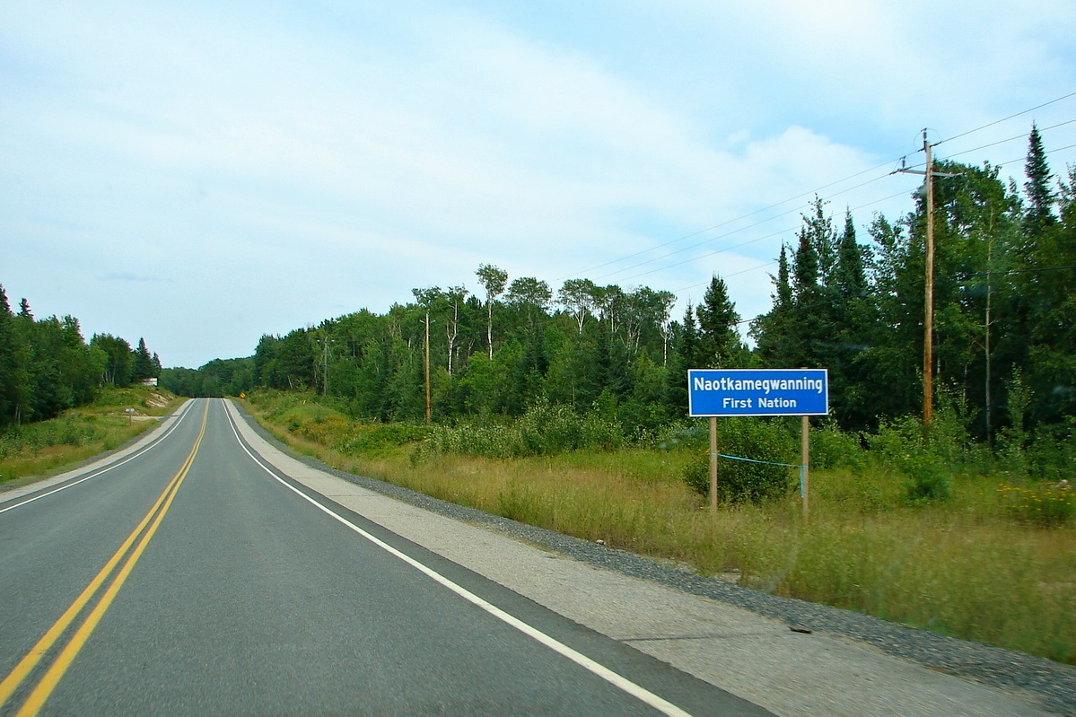 Naotkamegwannig First Nation along Highway 71, Kenora District, Ontario, Canada